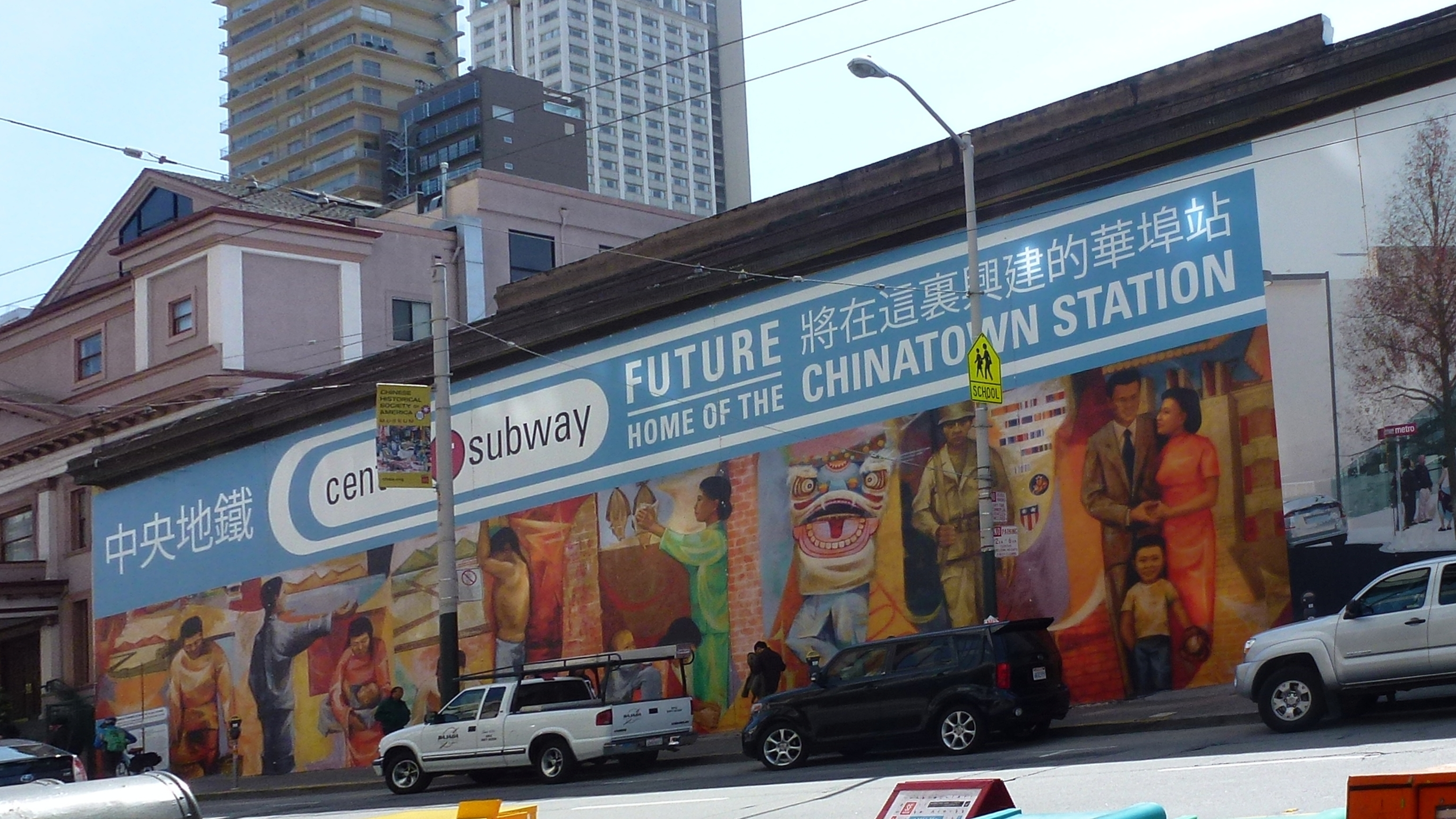 Chinatown San Francisco,, California, USA.